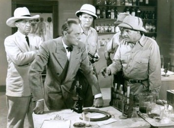 L. to R. : J. Farrell MacDonald, Arno Frey, Howard Banks, and Frank Buck in Tiger Fangs (1943).